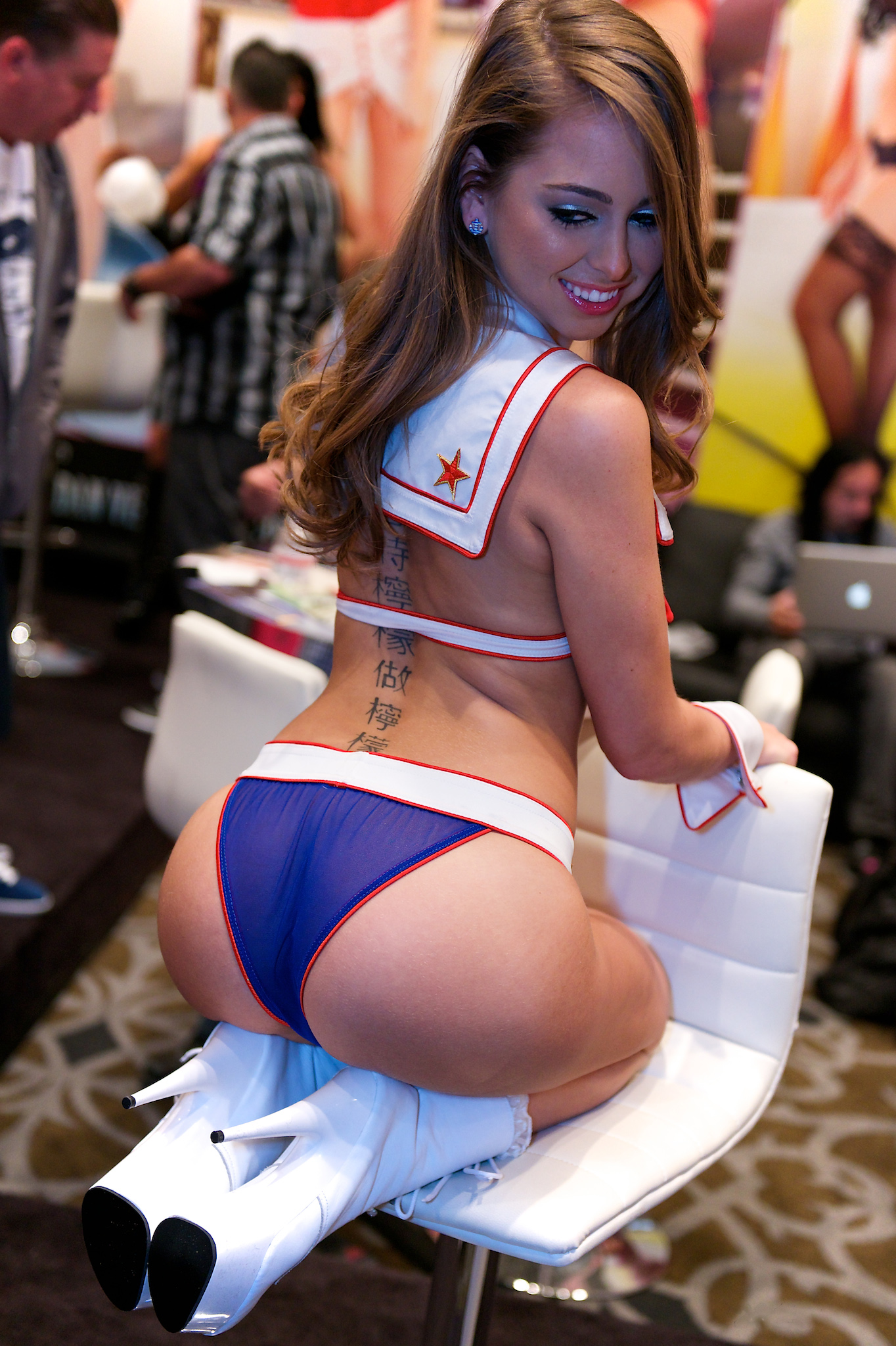 @RileyReidx3. 2013 AVN Adult Entertainment Expo AEE at Hard Rock Hotel - Las Vegas. 2013 © GEC.